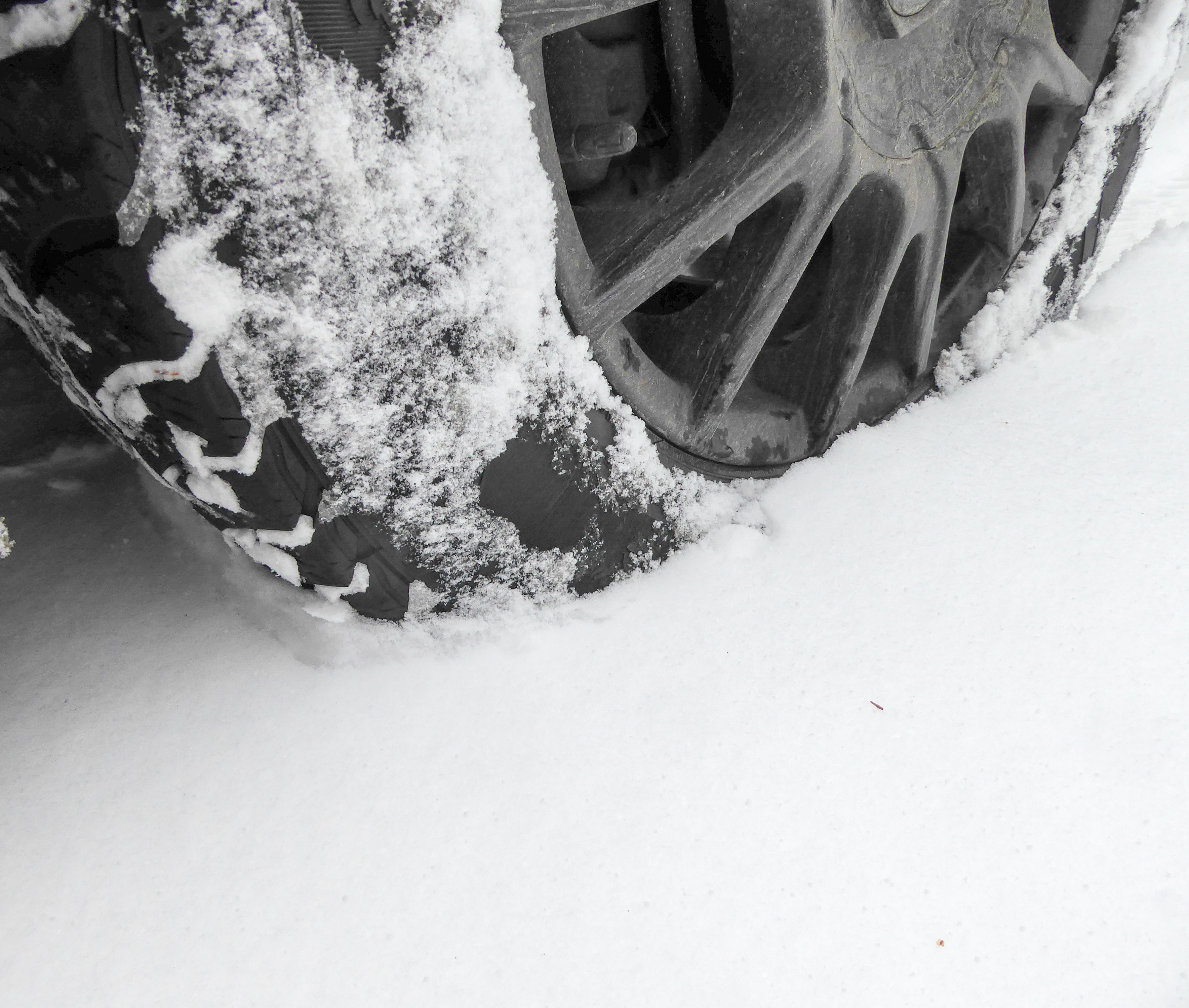 Compaction of snow in front of a snow tire, passing through about 10 cm of snow.